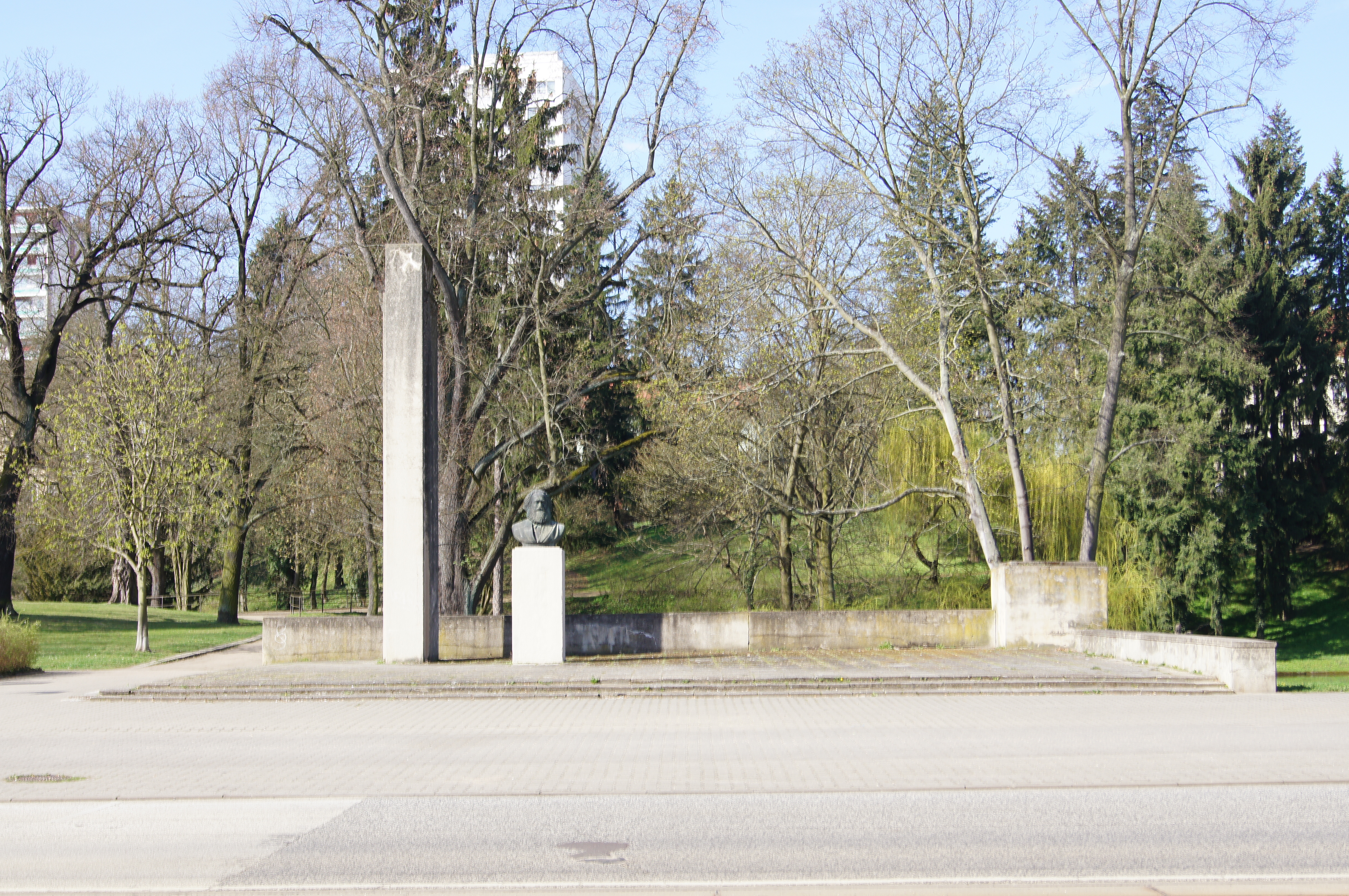 Karl Marx Monument Frankfurt (Oder), Brandenburg, Germany